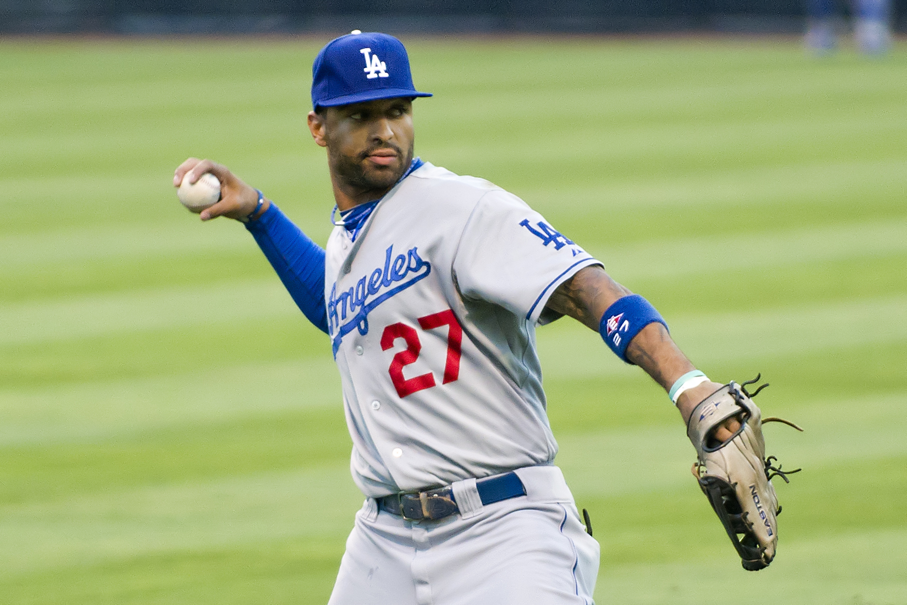 LA Dodgers center fielder Matt Kemp in August 2011 in a game at Petco park vs the Padres